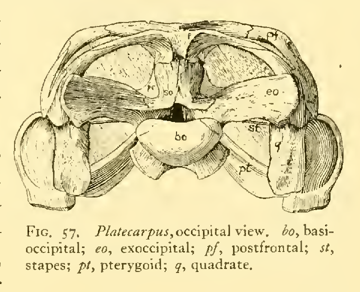 An illustration from The Osteology of the Reptiles